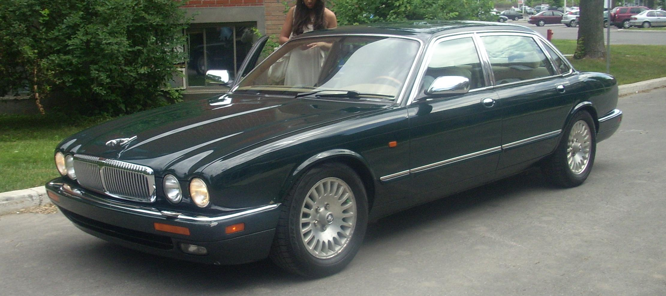 1995-1997 Jaguar XJ photographed in Montreal, Quebec, Canada.